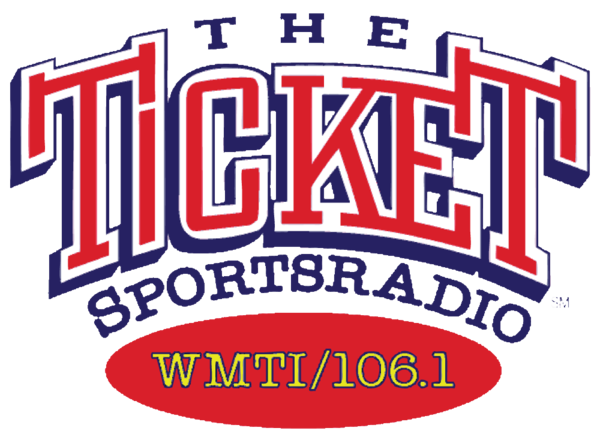 Logo of the radio station WMTI.